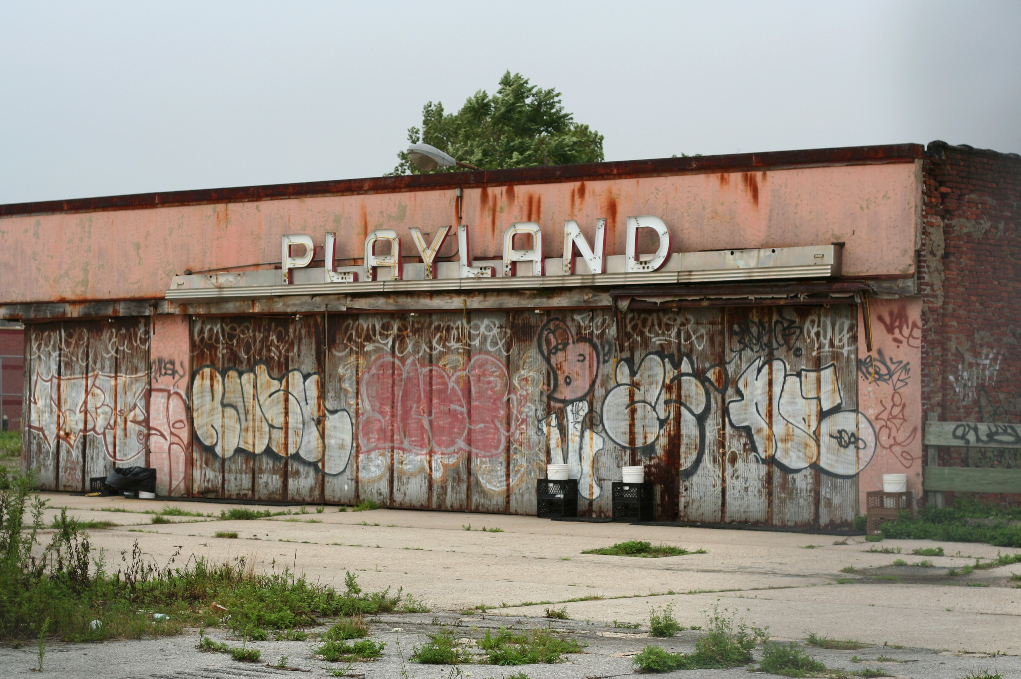 Ruin of playland amusement ride, Coney Island, New York